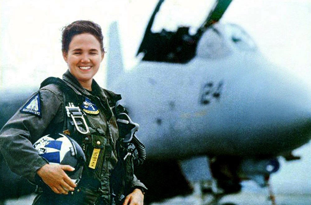 U.S. Navy Lt. Kara Hultgreen, the first Navy's first carrier-based combat fighter pilot, stands in front of a Grumman F-14 Tomcat. The lieutenant was killed in a Tomcat crash in 1994.